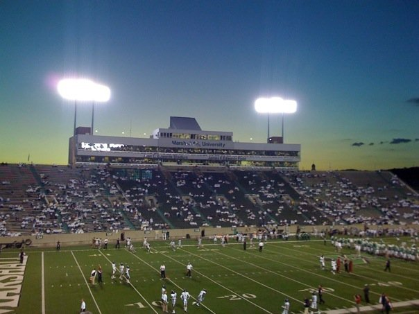 This is before the Marshall Cincinnati Game at Marshall University 2008. (take with iPhone)